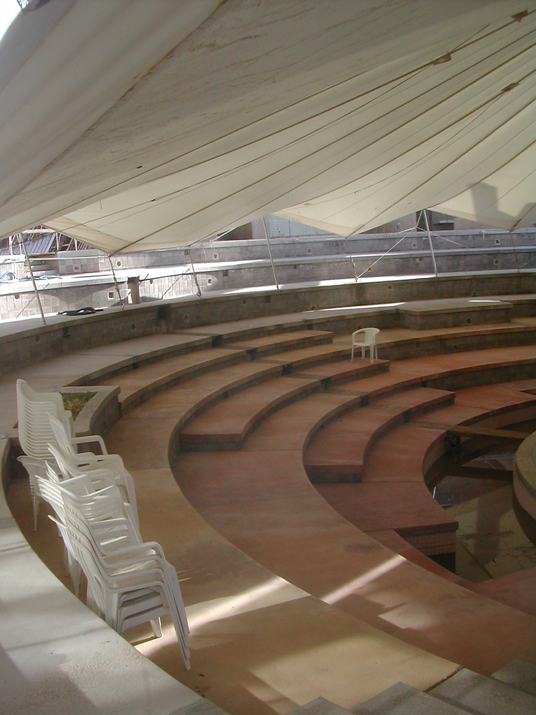 This is the area within the apartments where they have a theatre.